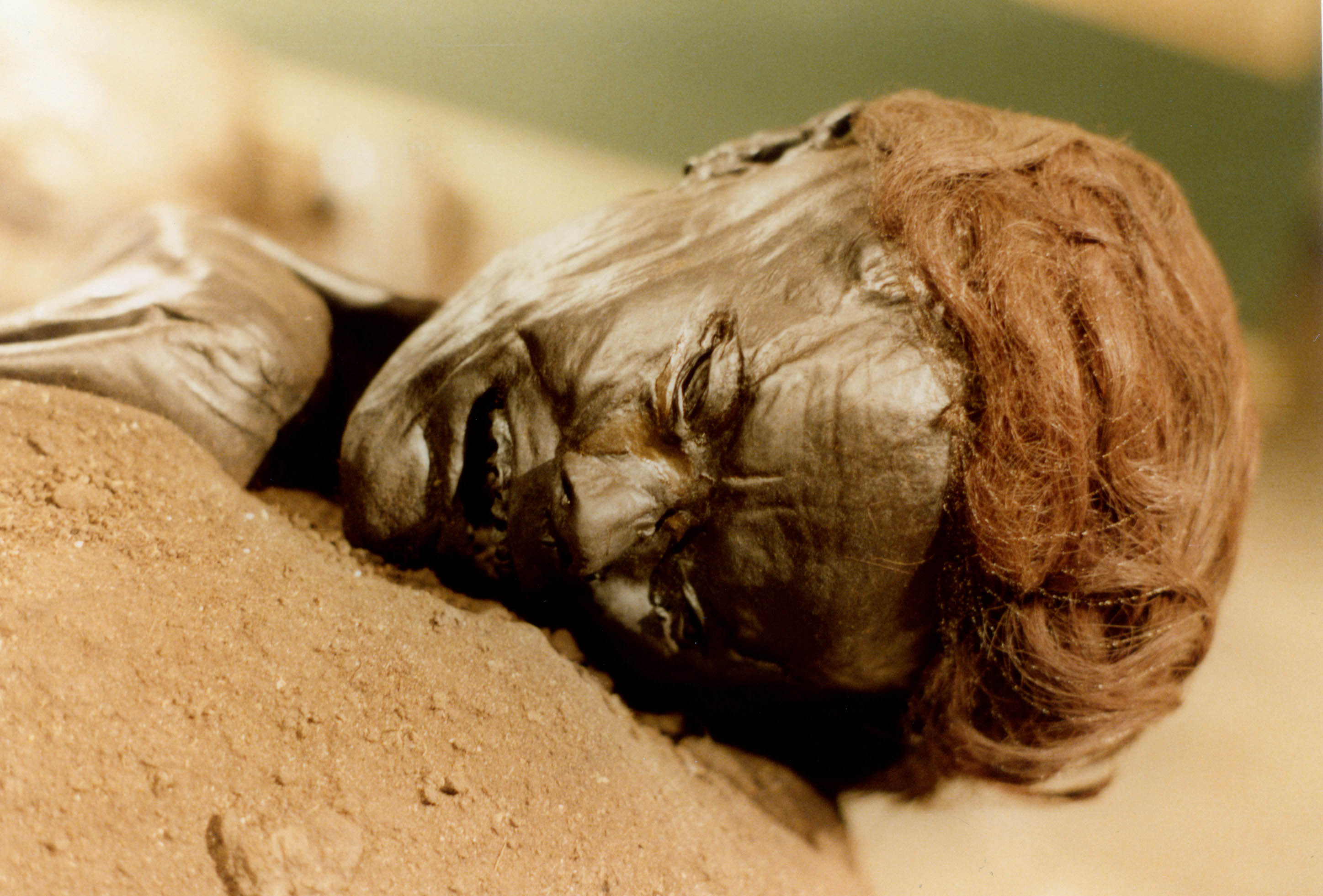 The face of the bog body known as Grauballe man, discovered in 1952 in Denmark